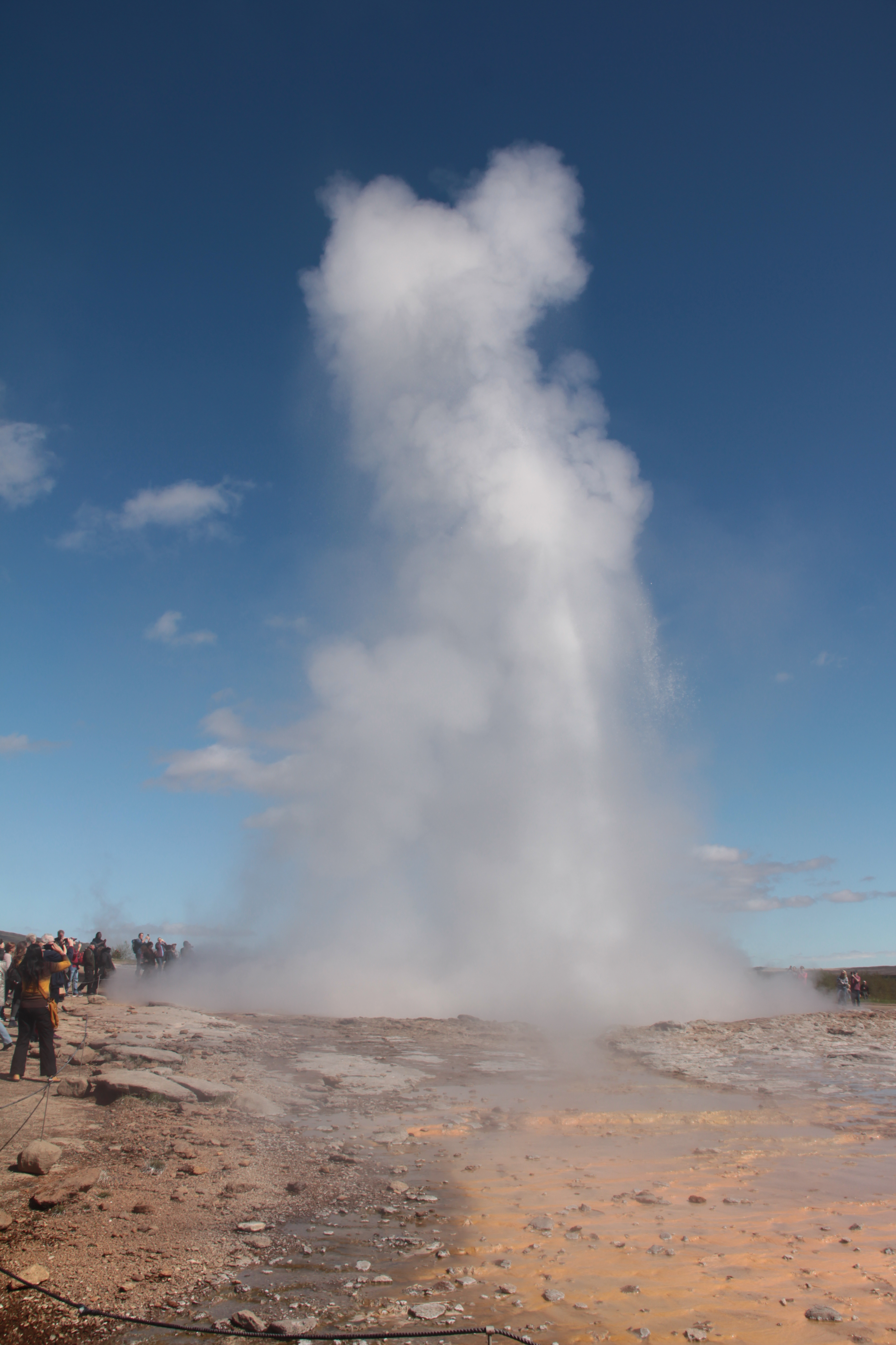 Iceland Geysir. This image has been originally created as the illustration for at . It has been released under CC-BY-3.0 license.